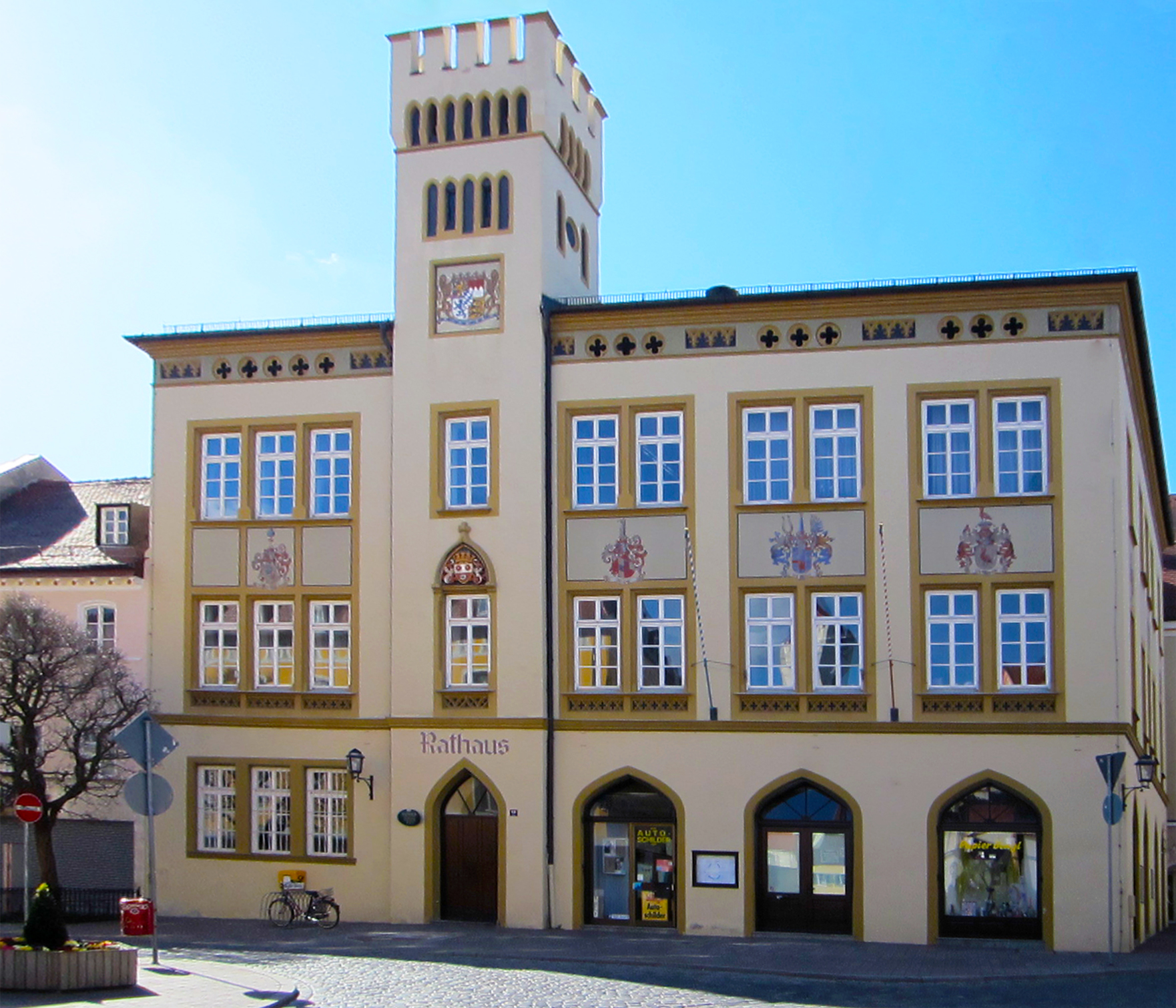 The picture shows the town hall of Moosburg an der Isar in Bavaria as on April 1, 2012.